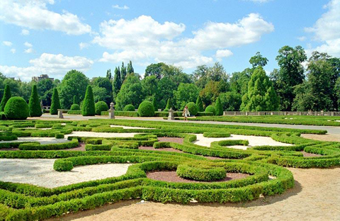 Parterre garden of the Branicki Palace in Białystok.